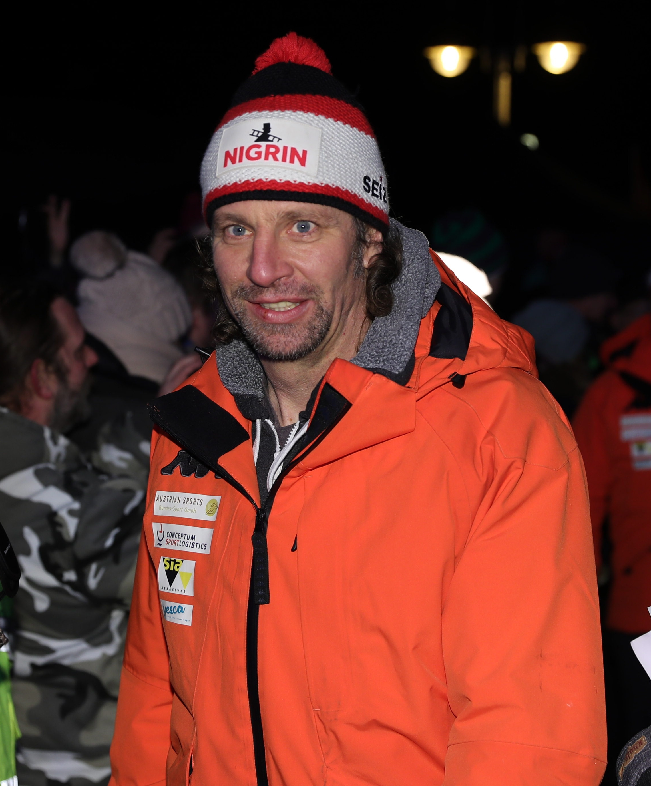 Opening Ceremony at the Bobsleigh and Skeleton World Championships 2020 in Altenberg